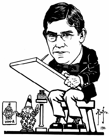 Illustration from The twelfth session of the Washington state legislature and state officials, by Alfred T. Renfro, W.C. McNulty (Von-A), W.C. Morris, Edward S. Reynolds, and Frank Calvert. This illustration is of the cartoonist VON-A, also known as William Charles McNulty; caricture by Alfred T. Renfro.